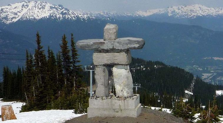 Croppped version of File:2009-0605-Ilanaaq-2010Oly-Whistler.jpg.